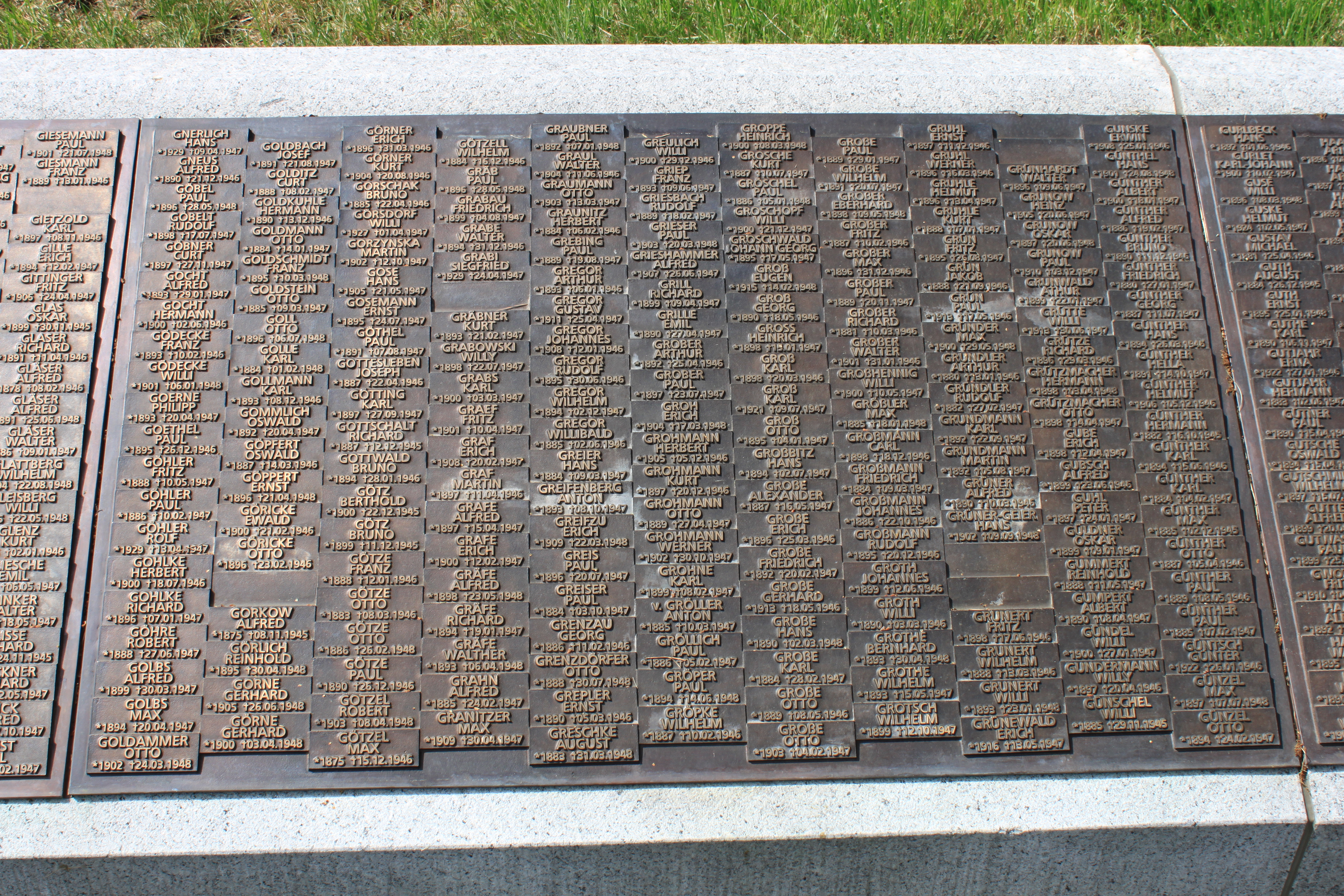 Memorial of the Stalag IVB/Speziallager Nr. 1 Mühlberg/Elbe